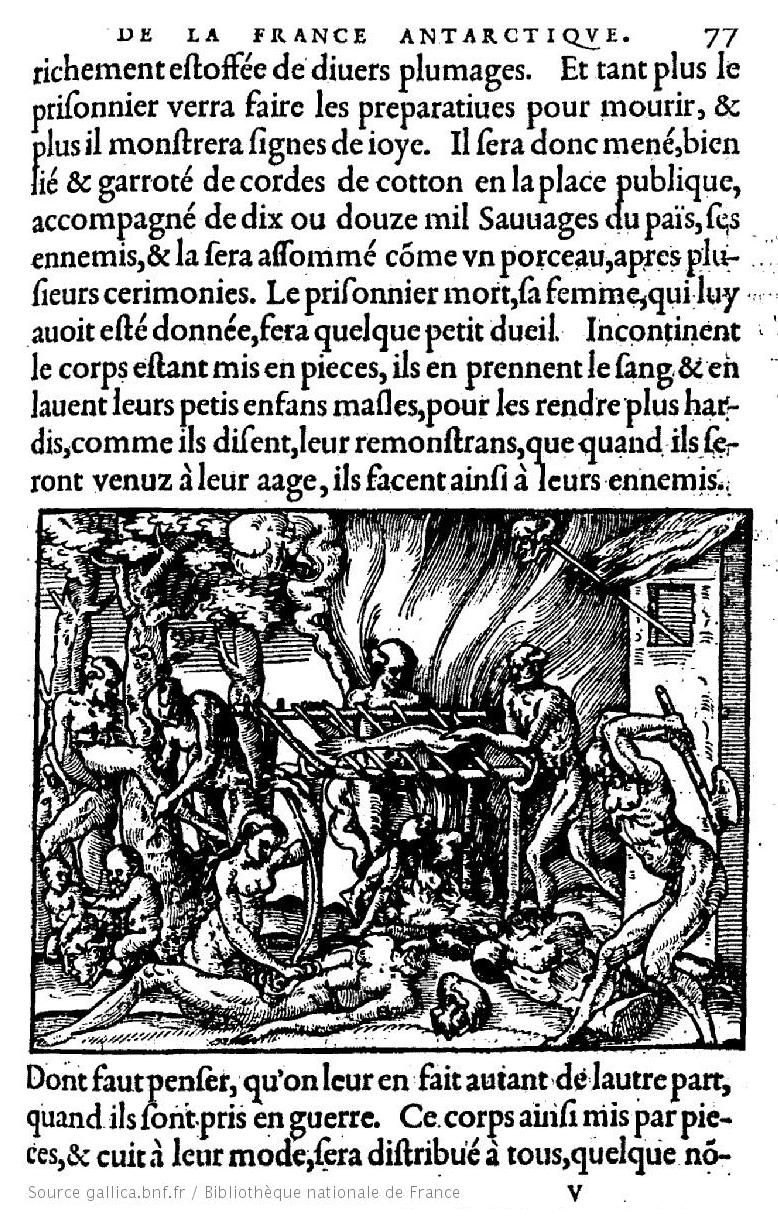 Cannibalism among "the savages" in Brazil, as described and pictured by André Thevet, a Franciscan monk who accompagnied Nicolas Durand de Villegagnon to South America where de Villegagnon established a French colony (called "French Antarctica") in the Bay of Rio de Janeiro. Thevet's writings are from 1555 and were published in 1557 in his book "The singularities of French Antarctica". The French colony in today's Brazil lasted only briefly; it was overtaken by the Portuguese in 1567.